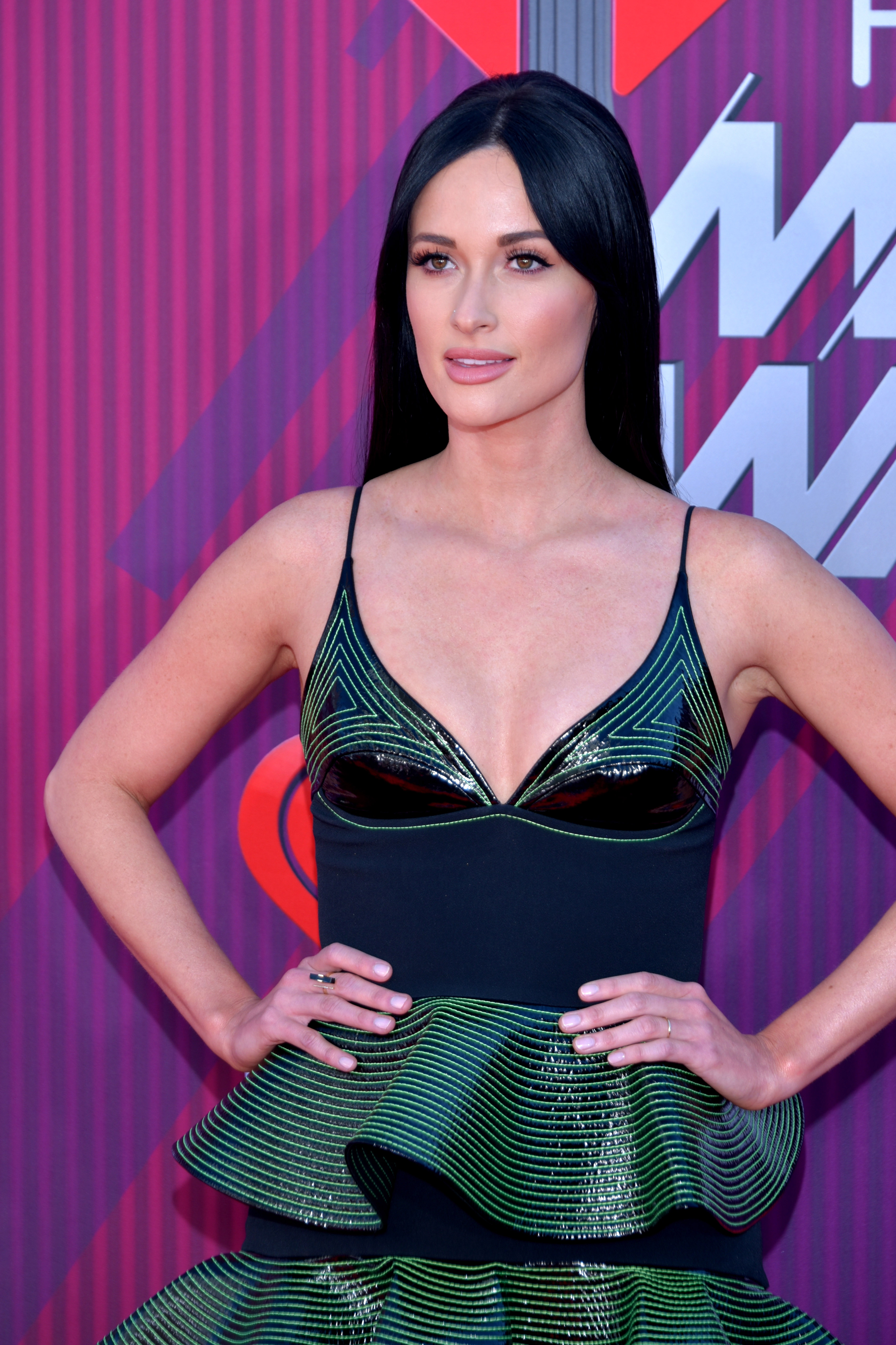 Kacey Musgraves at the 2019 iHeartRadio Music Awards on March 14, 2019 in Los Angeles, California - Photo by Glenn Francis of